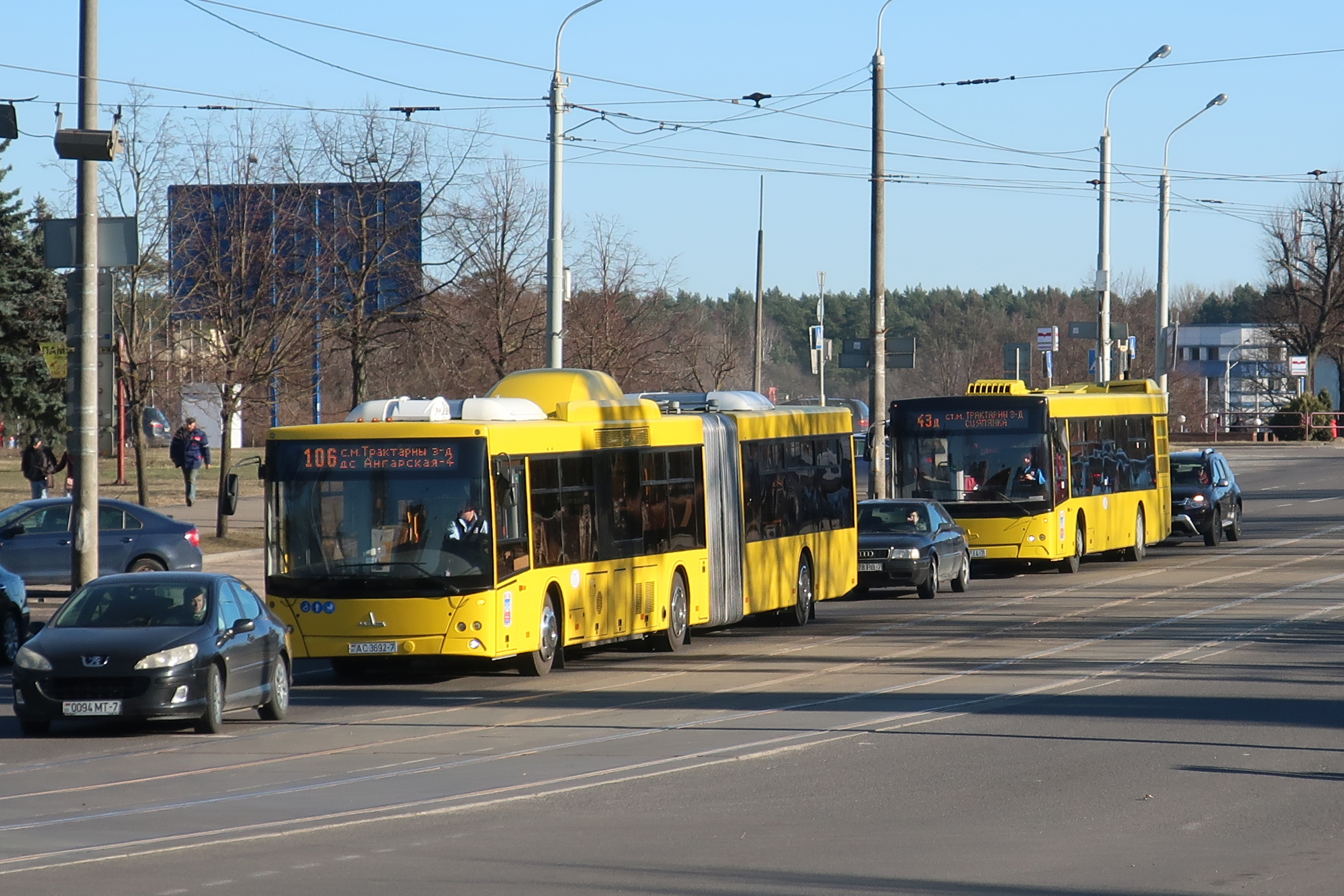 MAZ-215 and MAZ-203 buses (routes 106 and 43d) in Minsk, Belarus